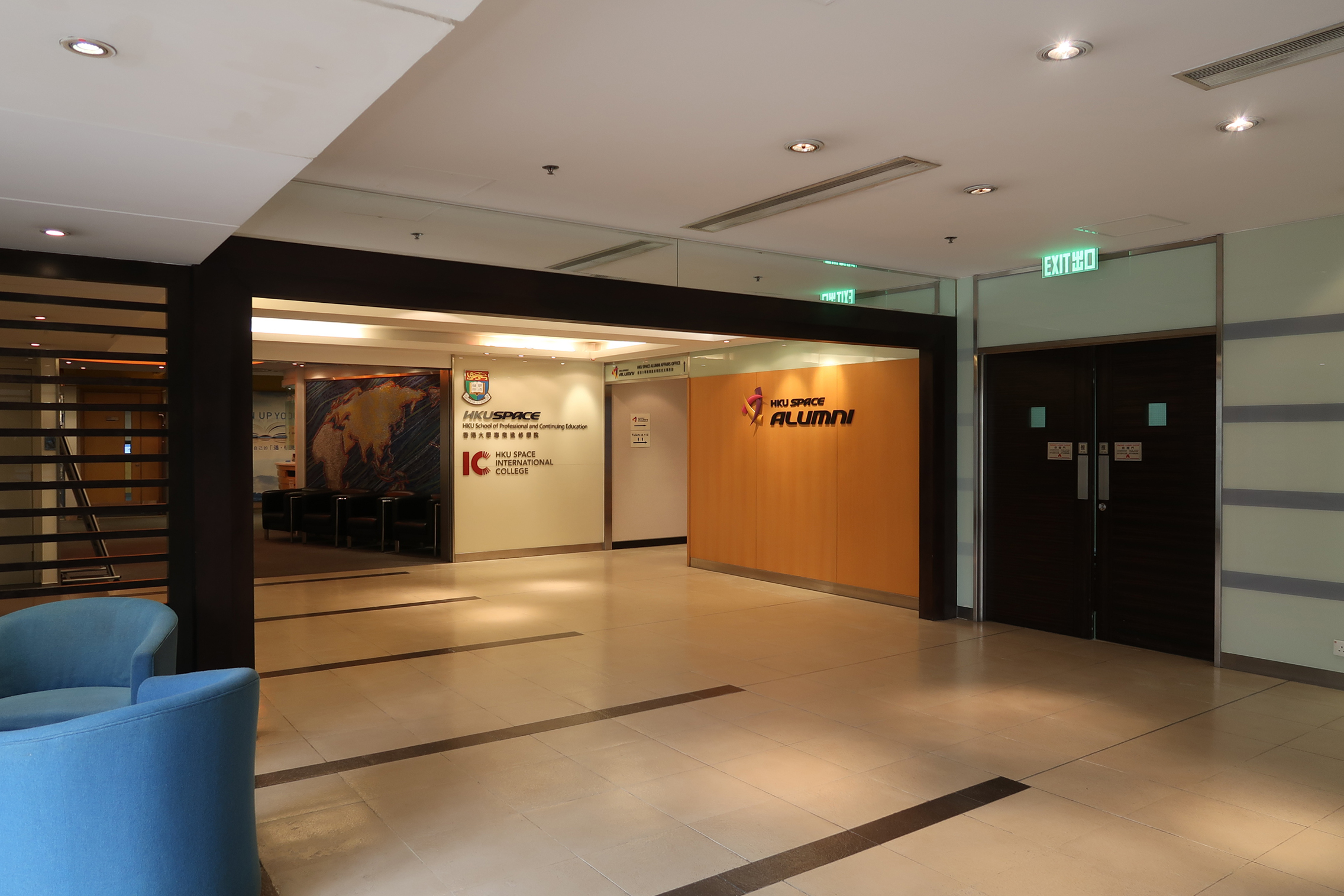 HKU SPACE in United Centre